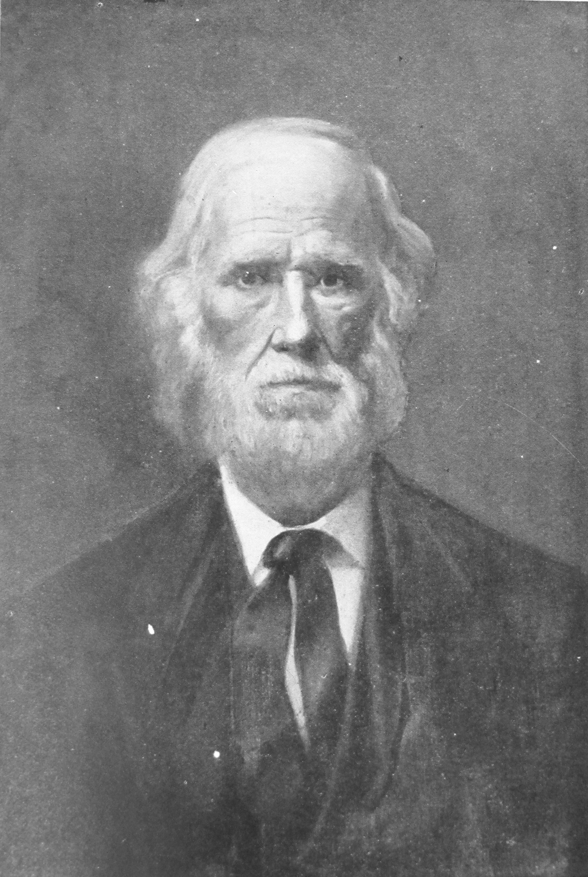 Portrait of American historian J.G.M. Ramsey (1797–1884) by artist Lloyd Branson. This portrait was in possession of the Lenoir family during the twentieth century.